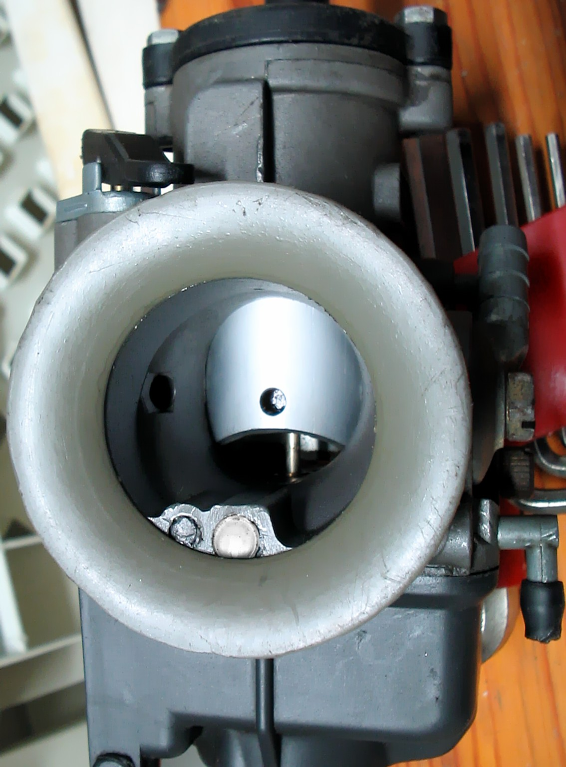 View side air intake of the carburetor Dell'Orto PHBH 28 RD, you may notice the grip of decentralized air compared to the duct carburetor, you can see the ventilation ducts clogged, because the air is taken externally via a socket external (in the picture is occluded by a black rubber), one can appreciate the bore of the conduit starter and the small hole in the top of the power circuit.